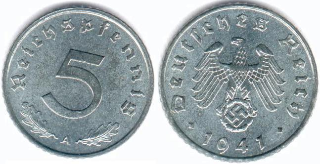 German 5 pfennig (1/100 of a Reichsmark).